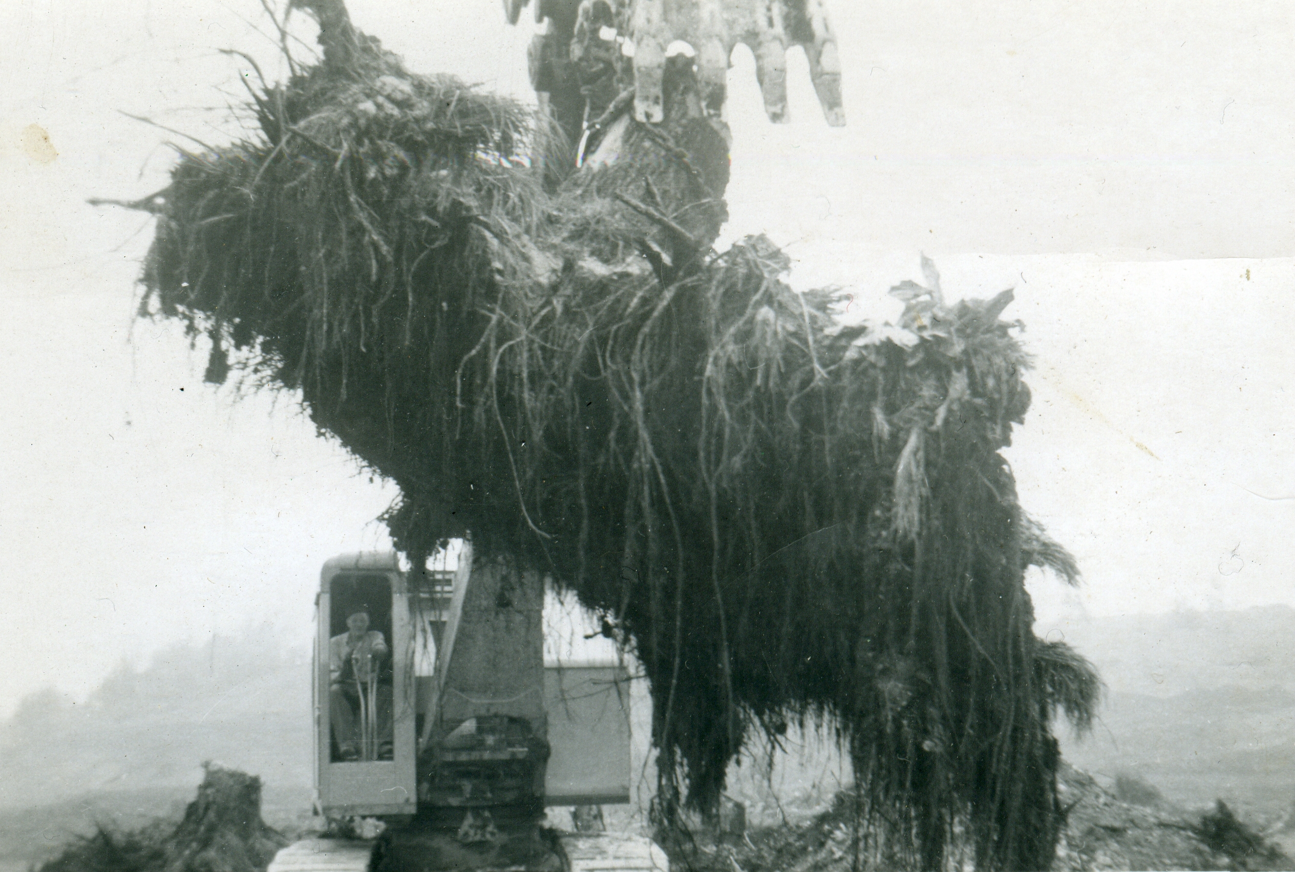 Historical photographs of Ontario 1917-1950 Beamsville and Stoney Creek Ontario including Orchards, and related family, personal papers and School information. Also Cecil White photos of construction and engineering job possibly Sudbury are in 1940's